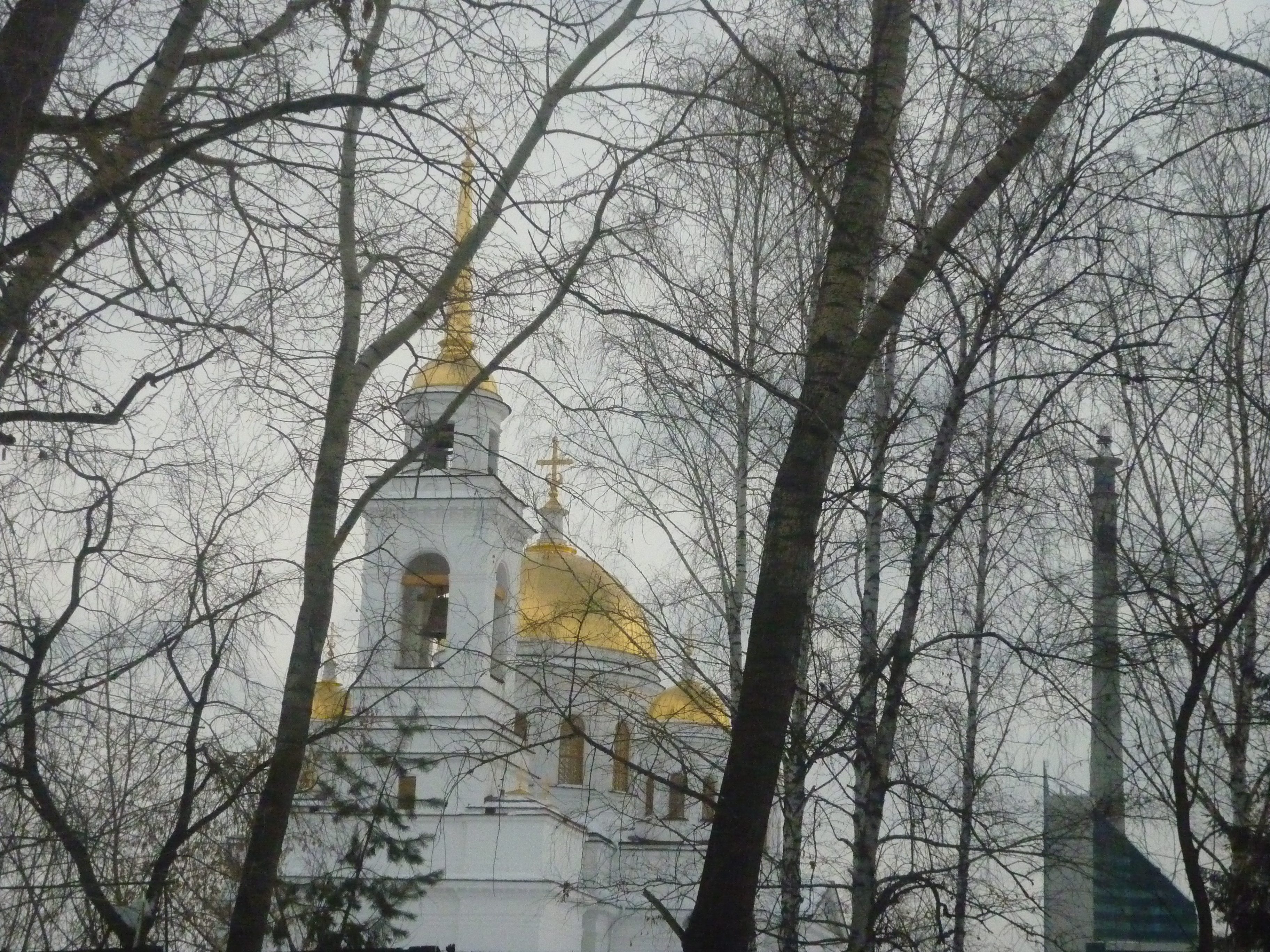 Alexander Nevsky Cathedral, Yekaterinburg